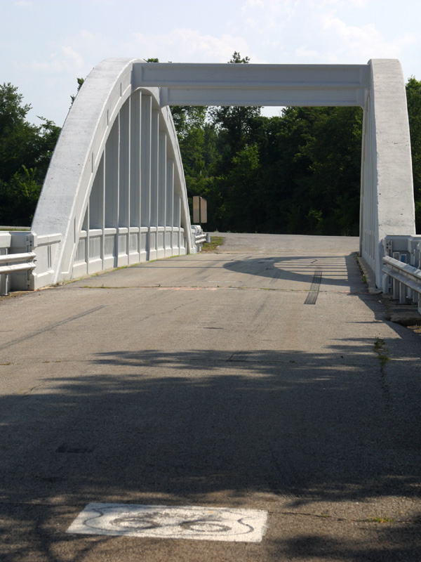 Brush Creek Bridge is the last of the Marsh arch bridges on historic Route 66. It was constructed in 1923 and listed on the National Registry on March 10, 1983. ⇒Side view